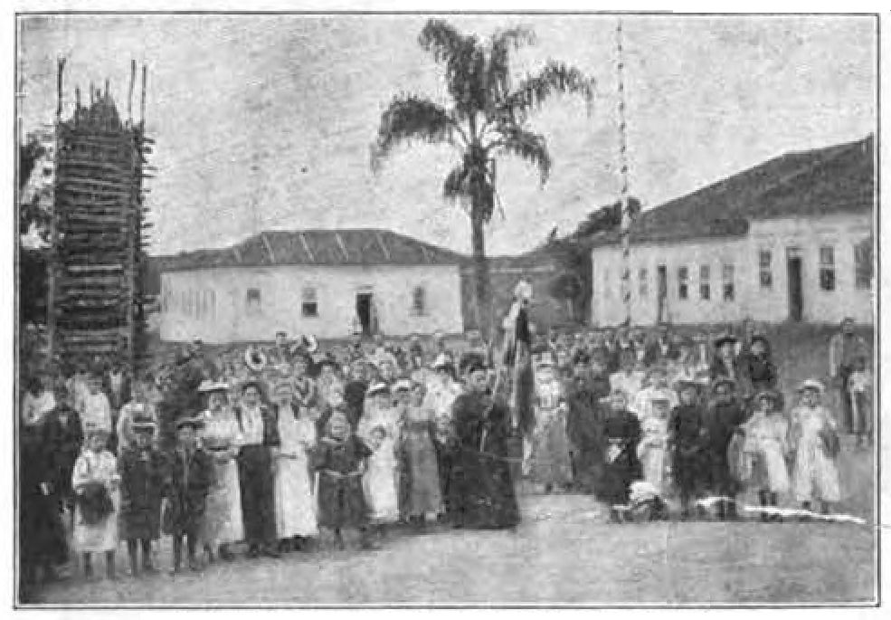 A feast day in a village in Brazil. Illustration from Maury's New Elements of Geography for Primary and Intermediate Classes.